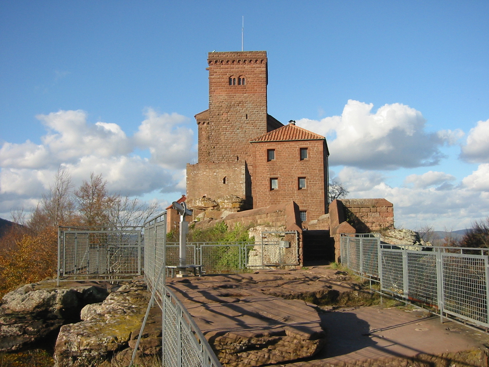 Trifels Castle in Annweiler, Germany